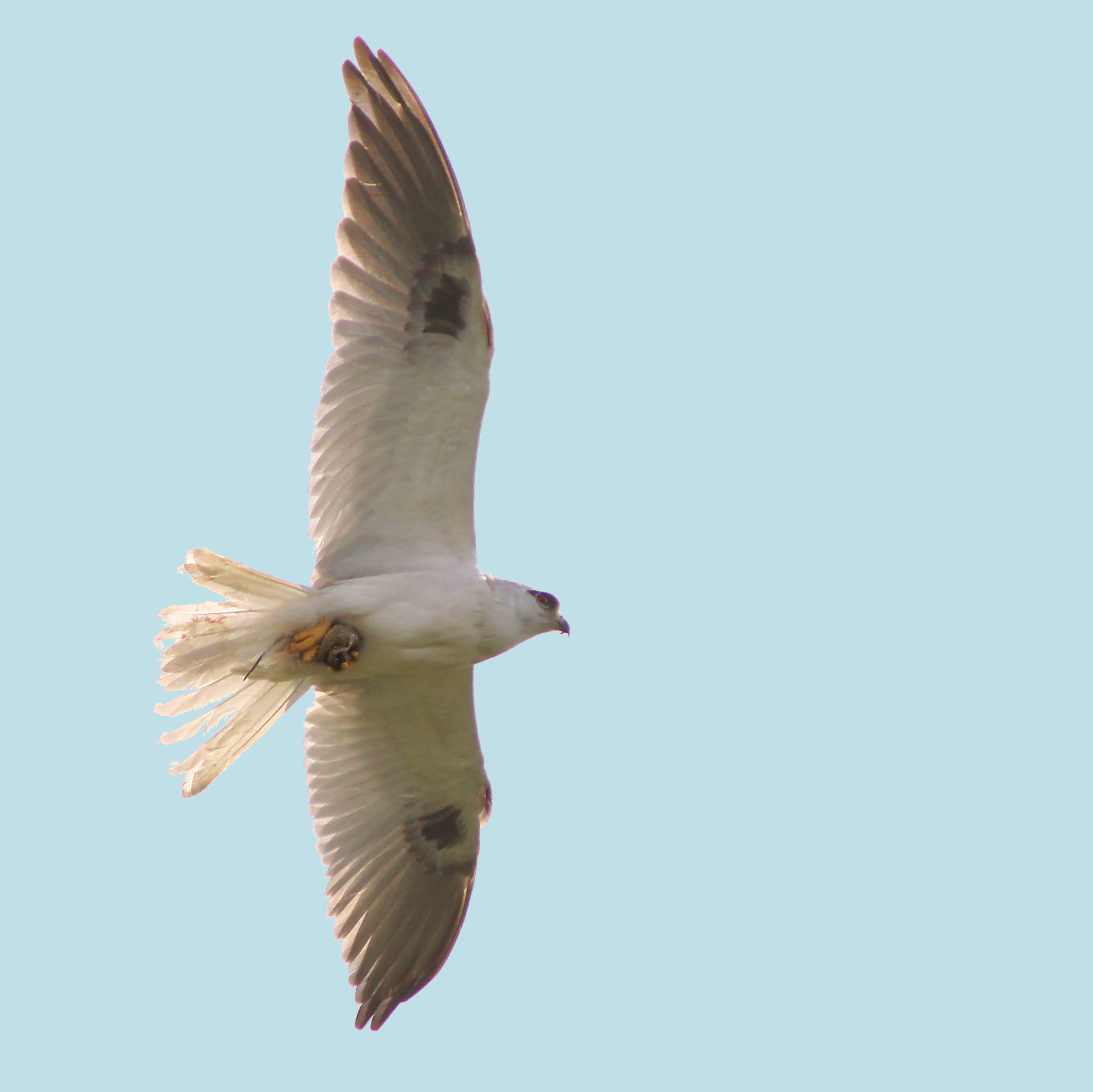 Black-shouldered Kite flying with a mouse in its talons, Kooragang Island NSW.